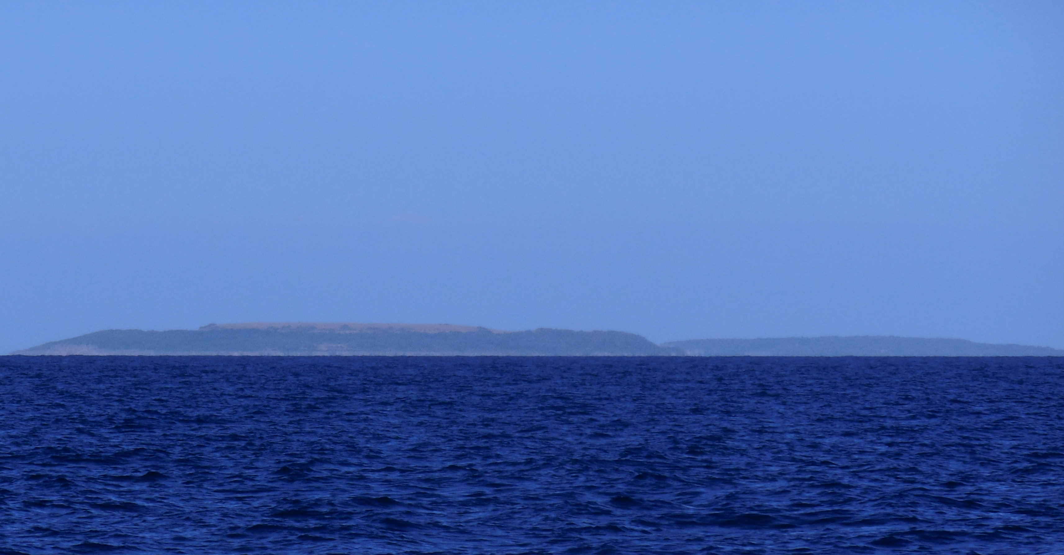 Carlota and Isabel Islands, collectively known as the Dos Hermanas, two of four islands under the jurisdiction of Banton, Romblon. Taken using my Nikon Coolpix S6500 and cropped using Adobe Photoshop